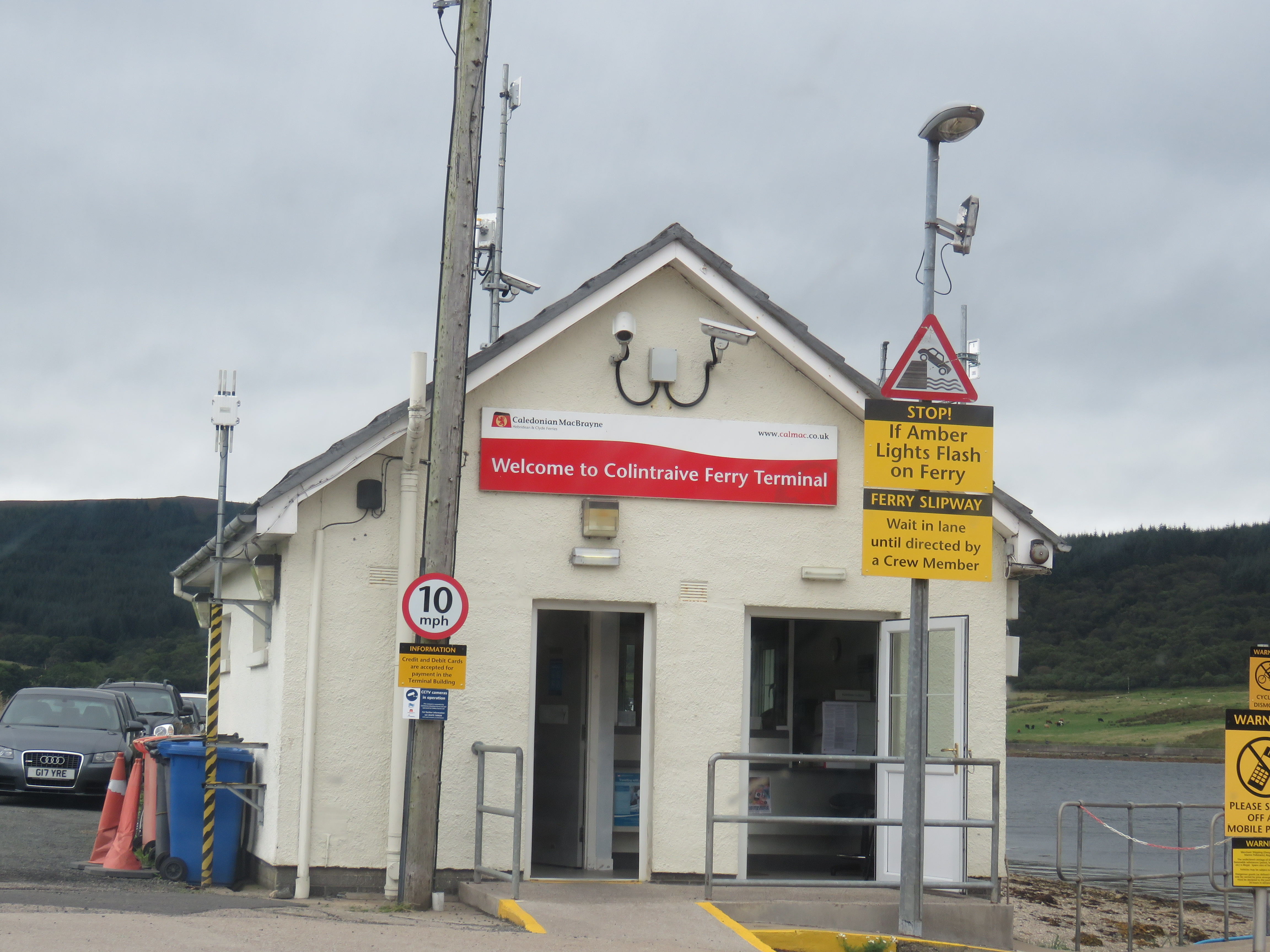 Colintraive ferry terminal, Argyll, Scotland